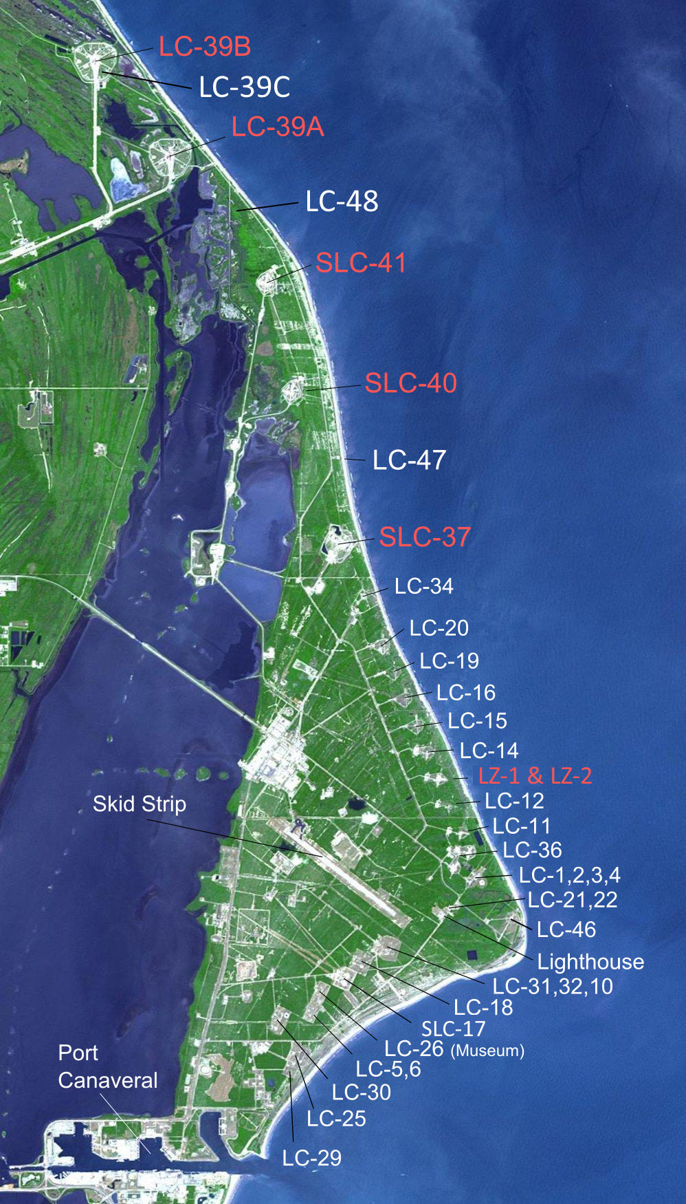 Map of Cape Canaveral with labels. Updated from File:Canaveral.svg.